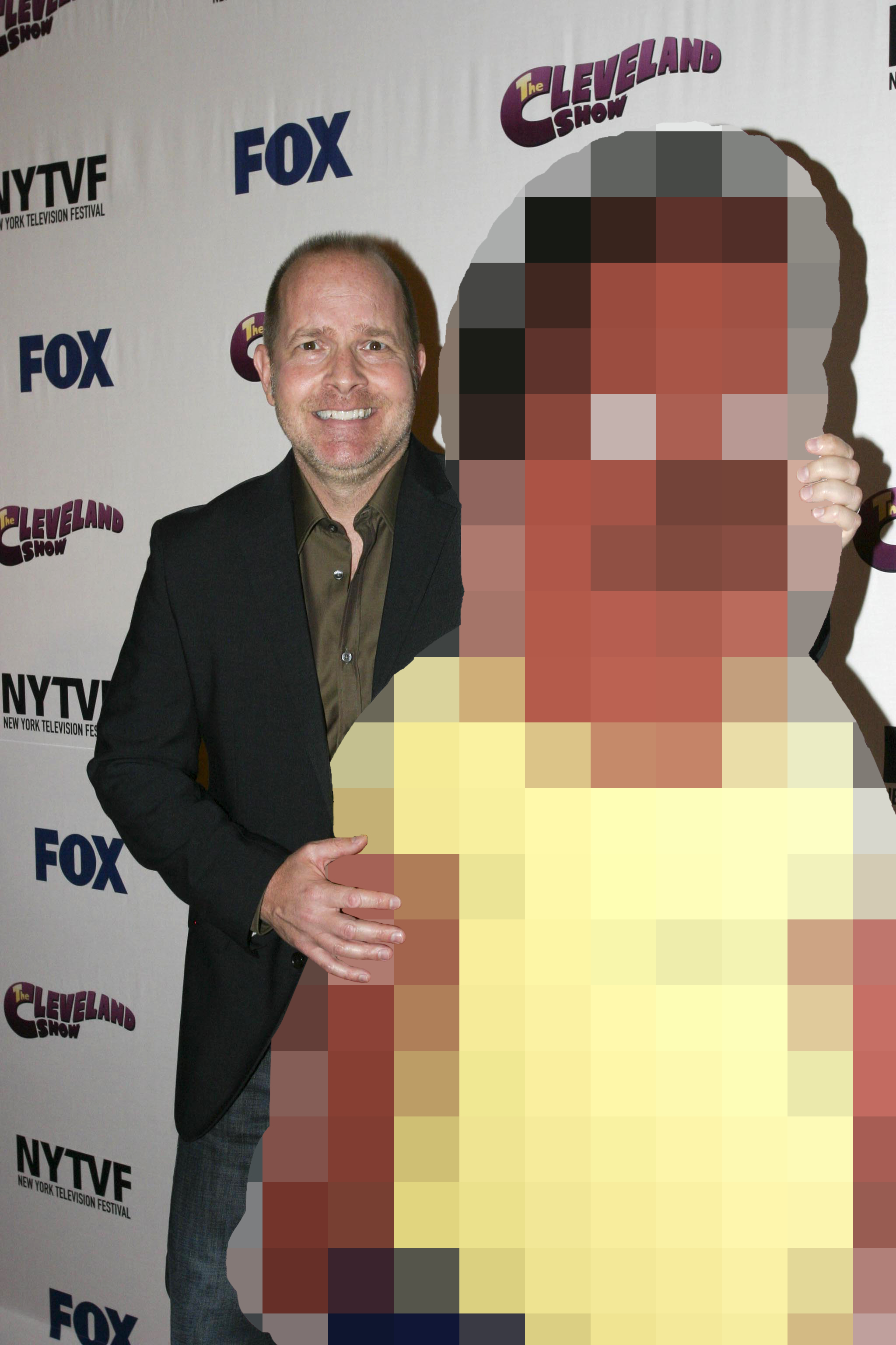 Voice actor Mike Henry posing with a cut-out of Cleveland Brown, the character he plays on the TV shows Family Guy and Cleveland Show. © Rubenstein, photographer Martyna Borkowski